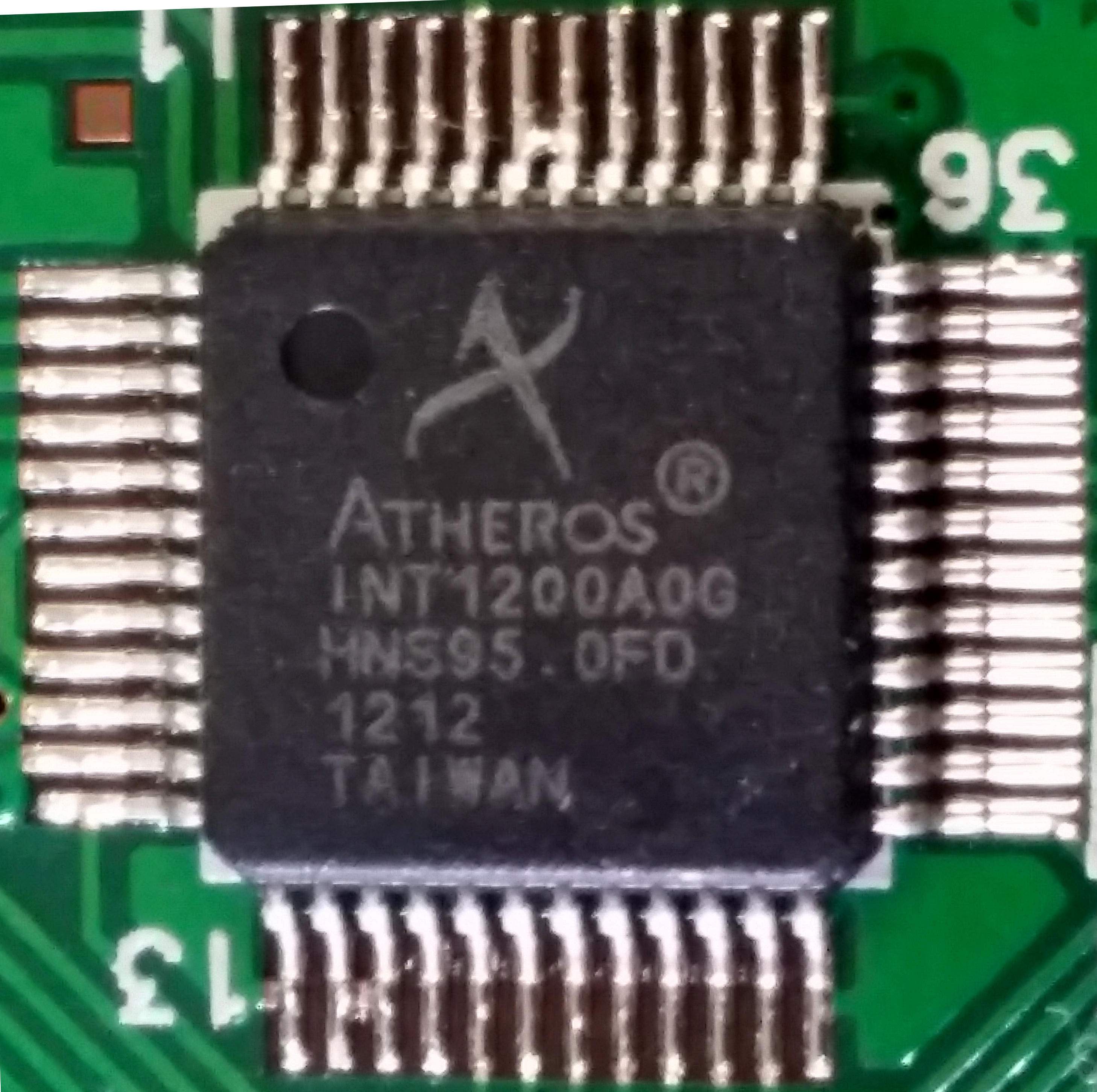 Atheros Int (Intellon) 1200 AFE as a companion of an Atheros Int 5500, serving as Analog front-end.